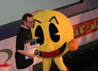 Pacman Champion